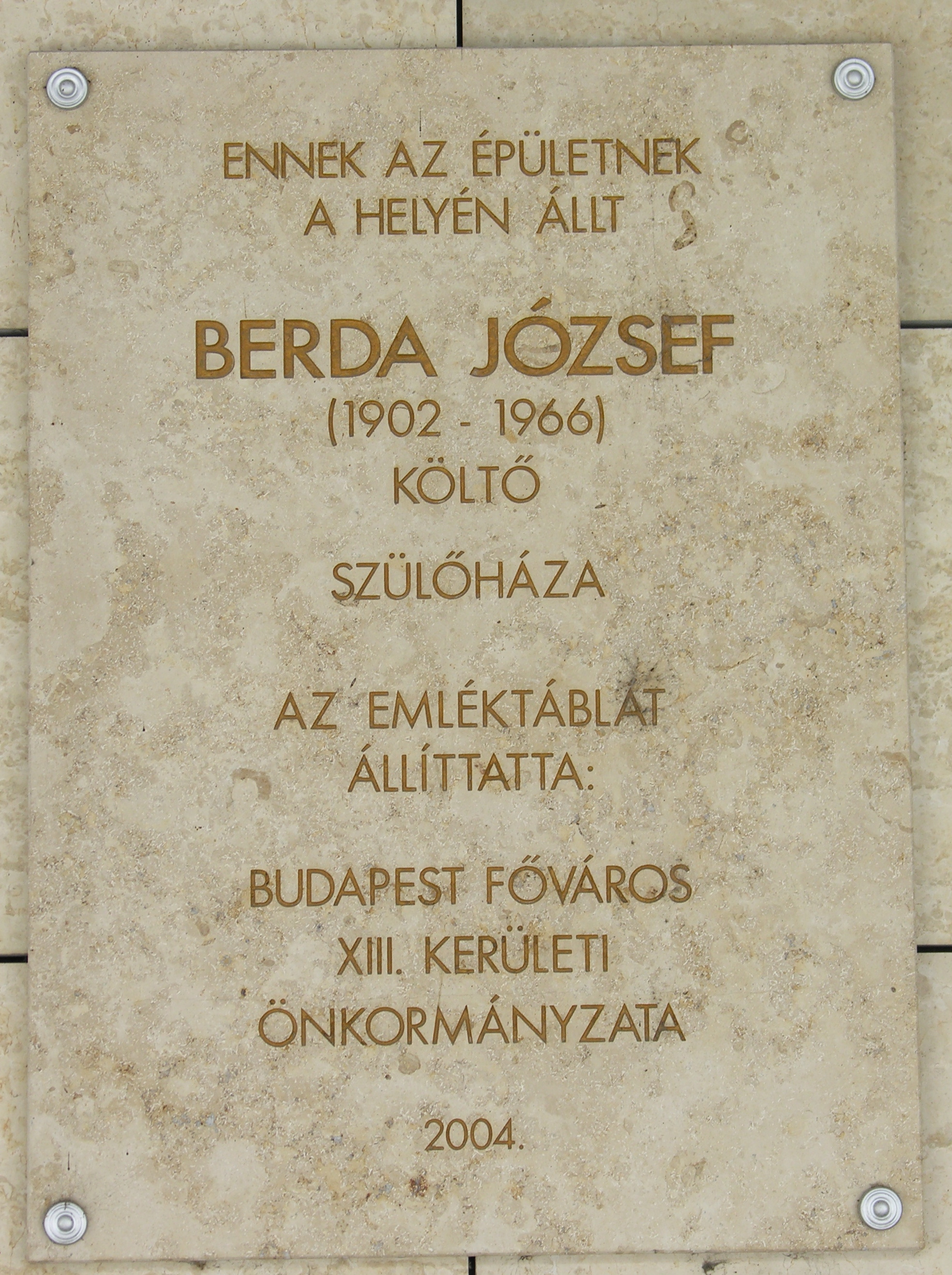 Commemorative plaque of József Berda in Budapest District XIII, Váci Street No 140